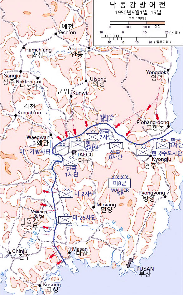 Map of the Naktong Defense lines, September 1950.Localization work of: File:Naktong Defense.jpg